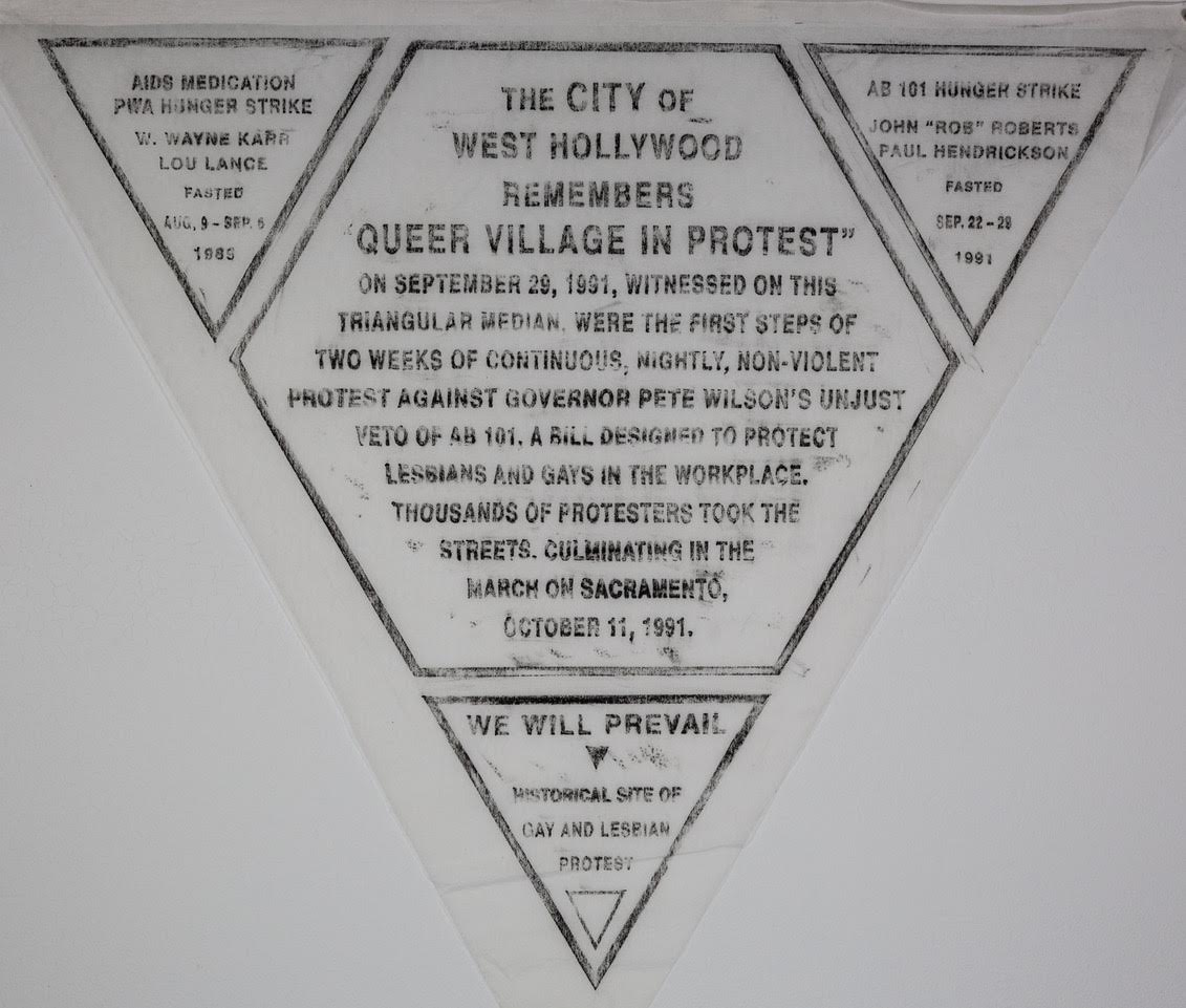 A rubbing taken from a commemorative marker in West Hollywood, California